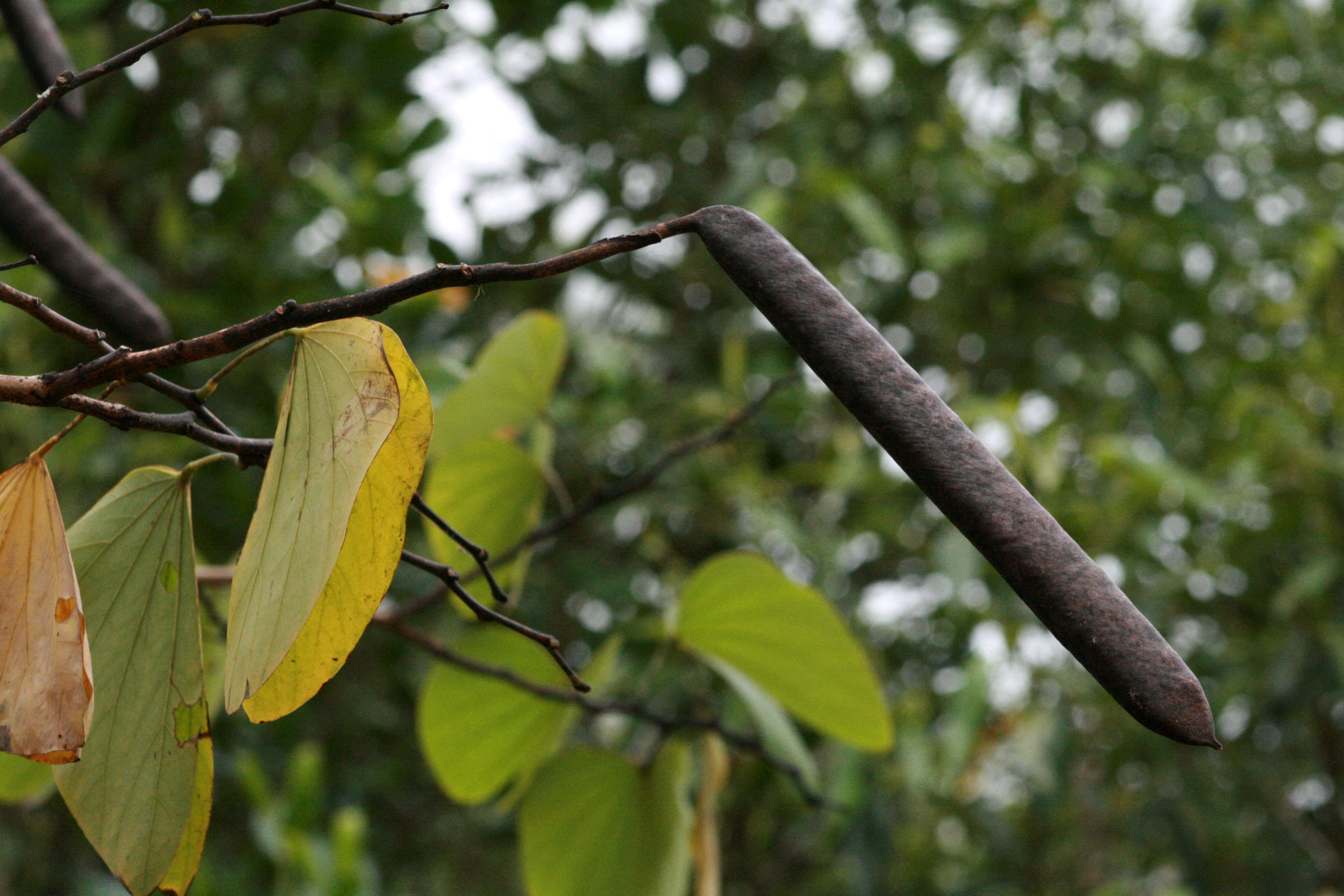 Butterfly bauhinia (Bauhinia monandra) seed pod in the Cairns botanical gardens. The plant label reads "Caesalpiniaceae, Bauhinia monandra, Butterfly Bauhinia, Burma".